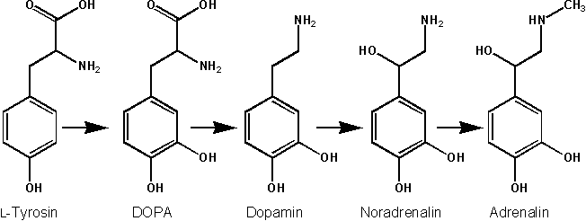 Phenylethanolamine N-methyltransferase